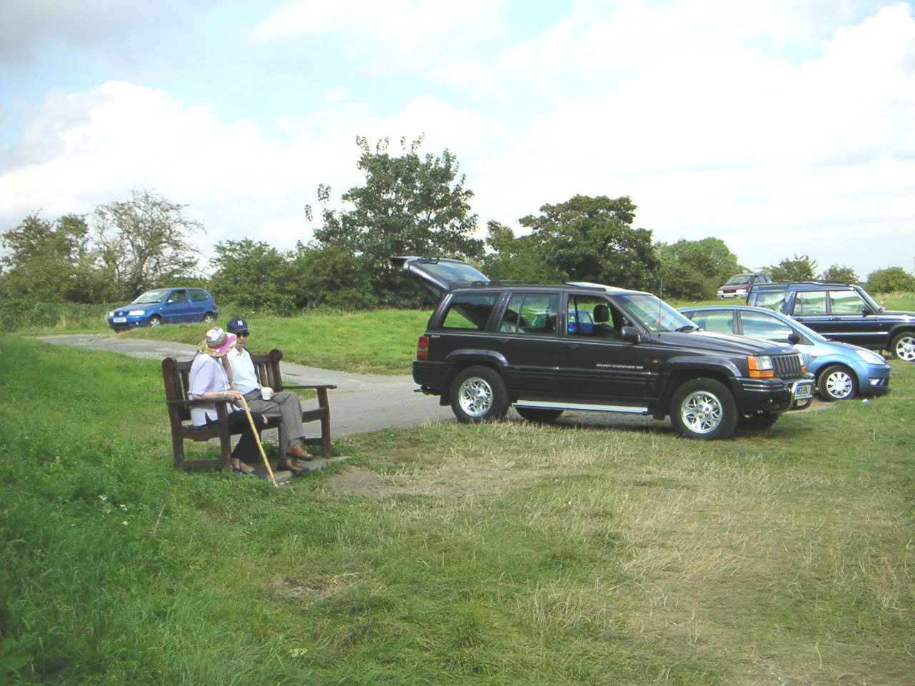 Picnicking at Fiskerton riverside walk informal parking area, nearby to and downstream of Tne Bromley pub/restaurant, with traffic visible in the background on Staythorpe Road